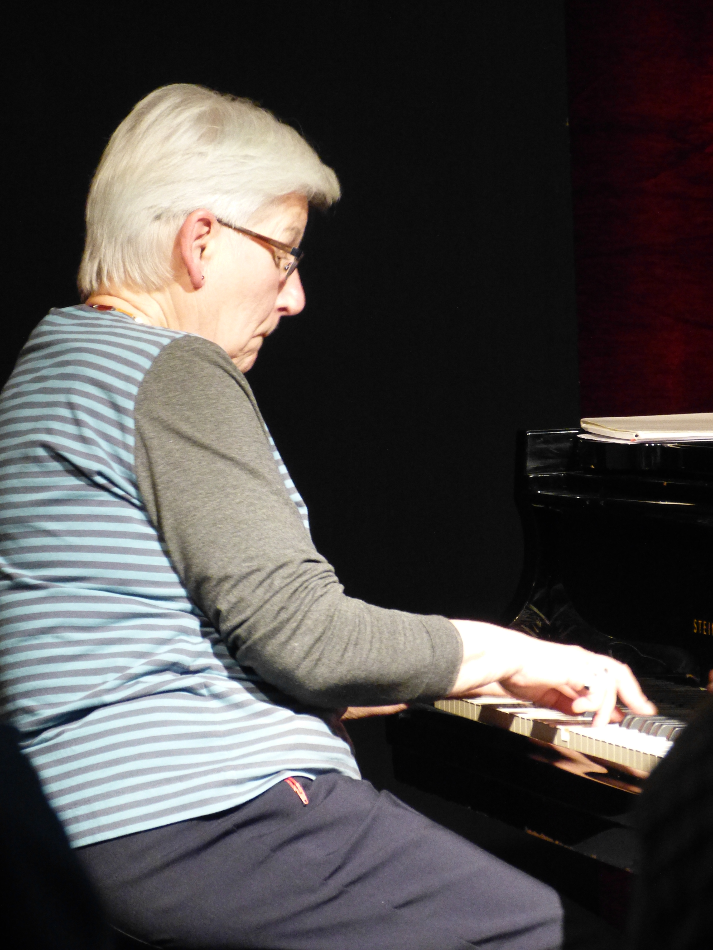 Irene Schweizer in the concert at Loft (Cologne), Germany, February 7th, 2014